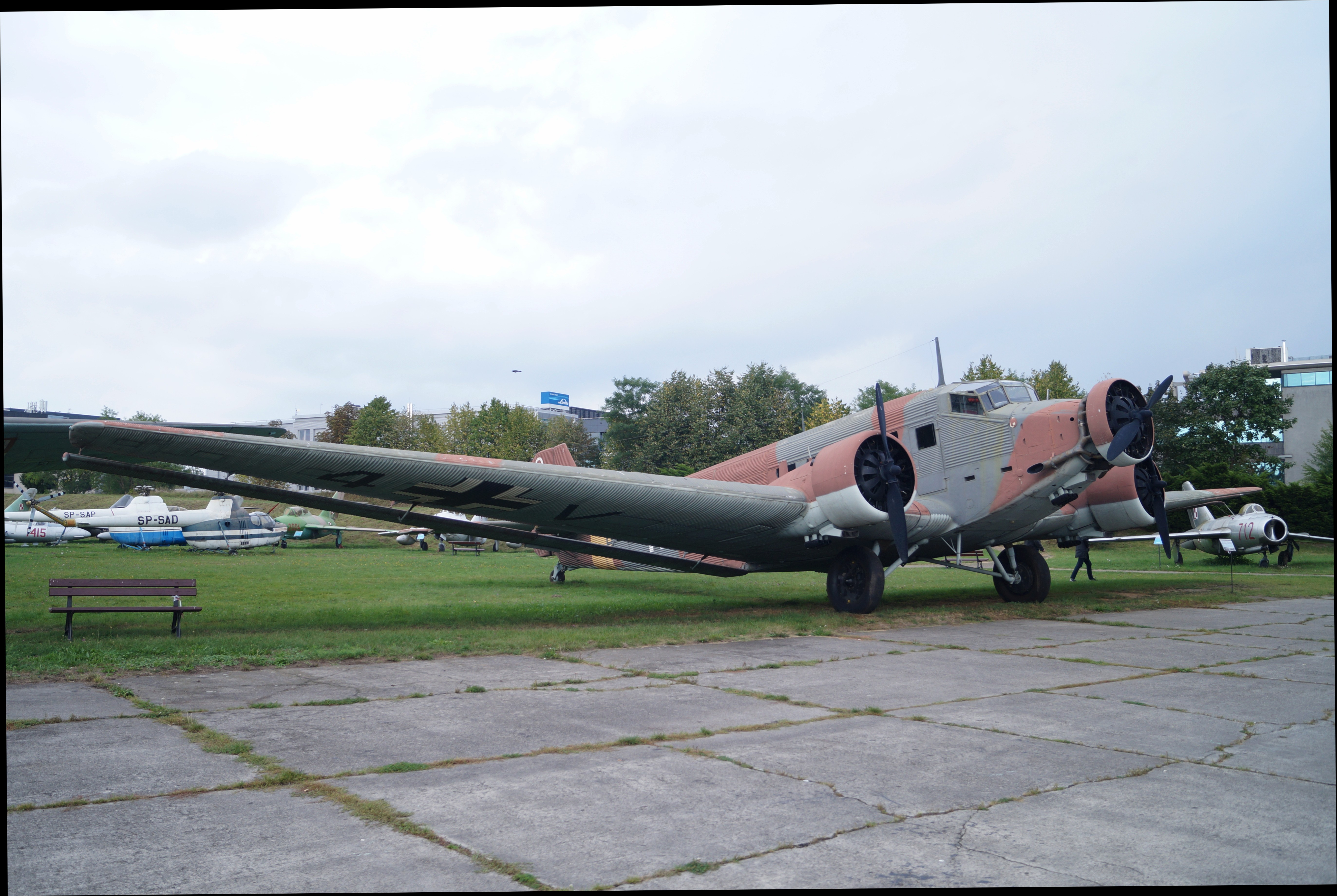 This photo was taken during Automotive Wikiexpedition 2016 set up by Wikimedia Polska Association. You can see all photographs in category Wikiekspedycja motoryzacyjna 2016. English | Polski | +/− Amiot AAC.1 Toucan (licencja Junkersa Ju 52/3m) w Muzeum Lotnicwa Polskiego w Krakowie